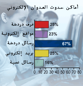 graph showing where electronic aggression occurs.